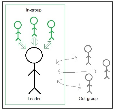 Forming relationships between the leader and the subgroups